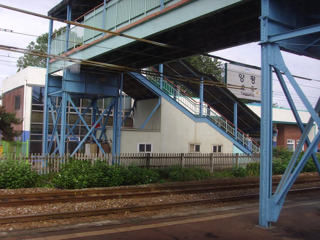 Jungang Line Yangpyeong Station